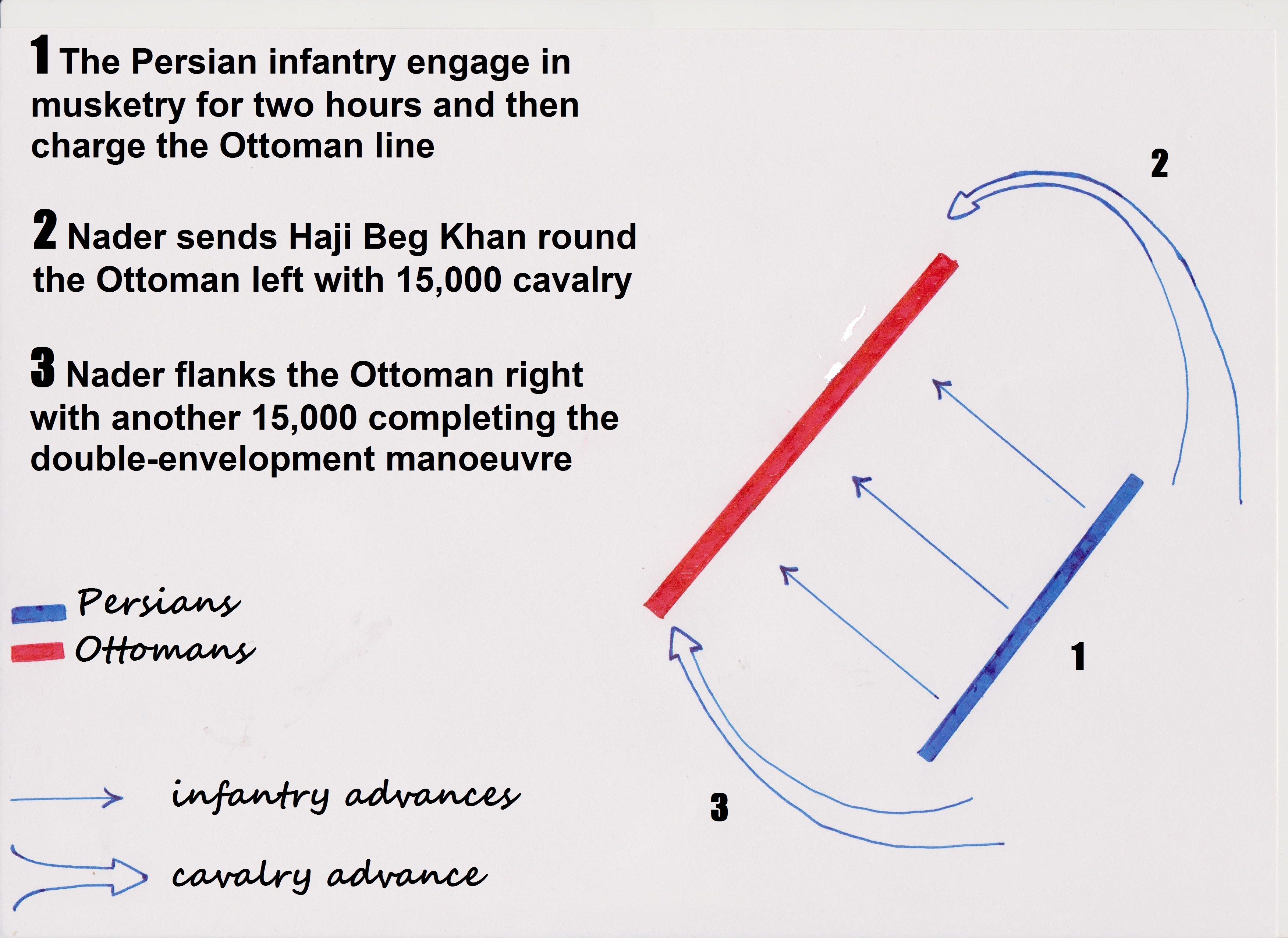 Battle of Agh-Darband